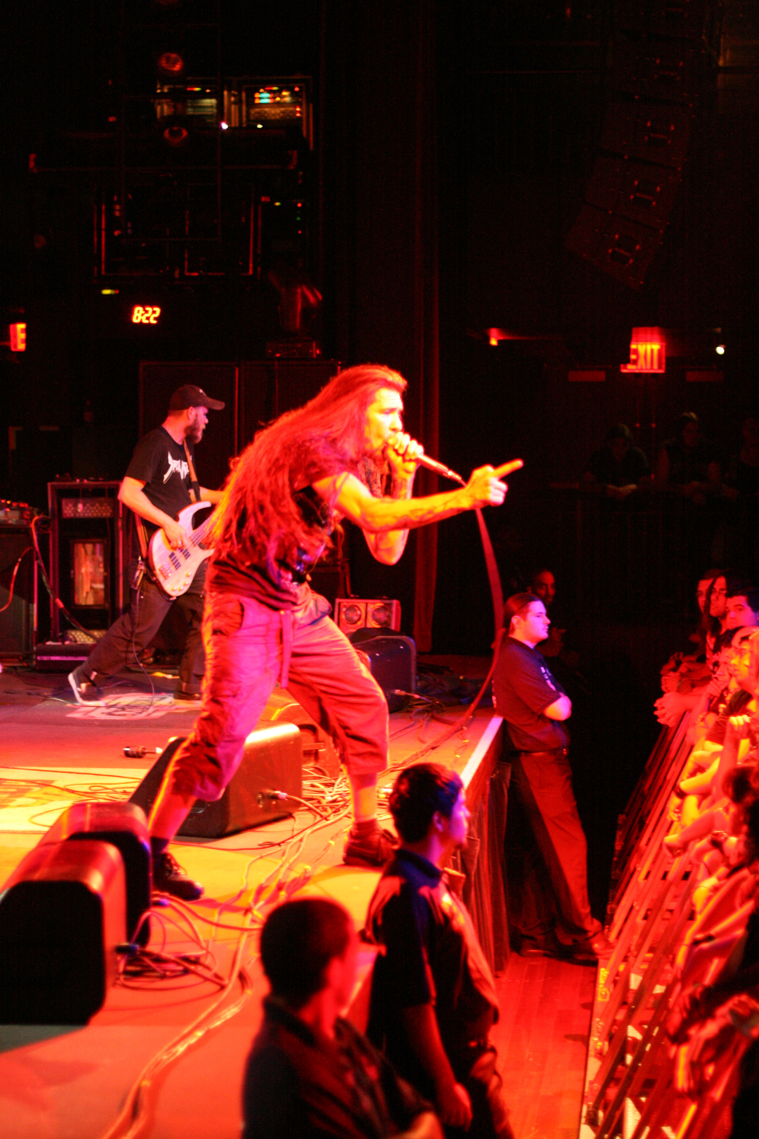 Soilent Green @Nokia Theatre 2008-06-25